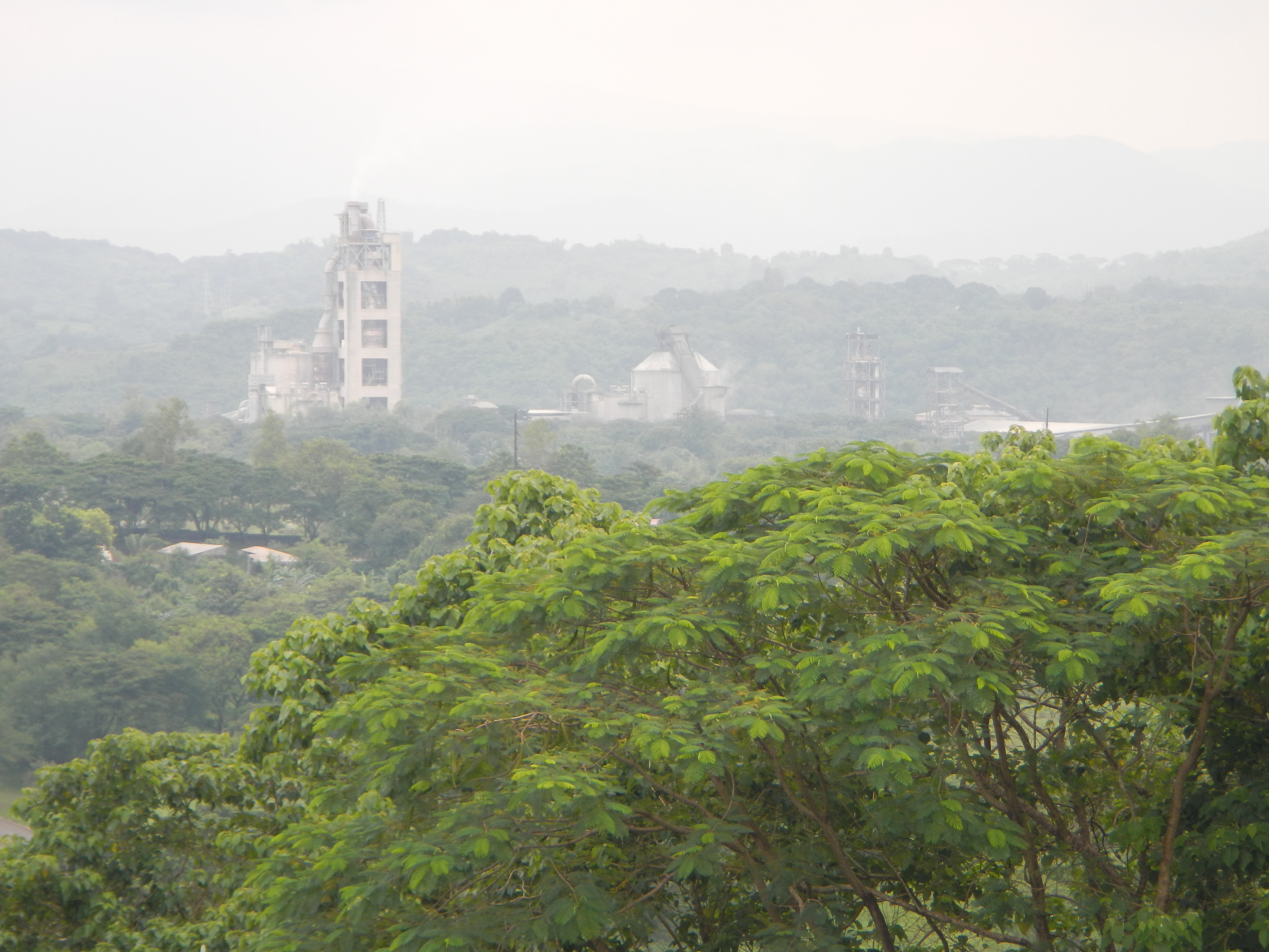 Norzagaray, Bulacan[1] Minuyan